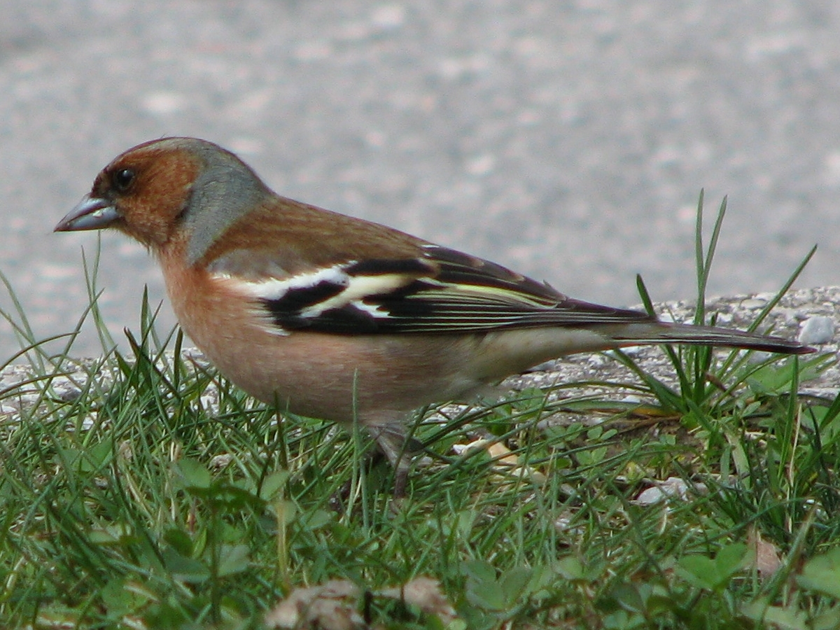 Male Chaffinch (Fringilla coelebs).